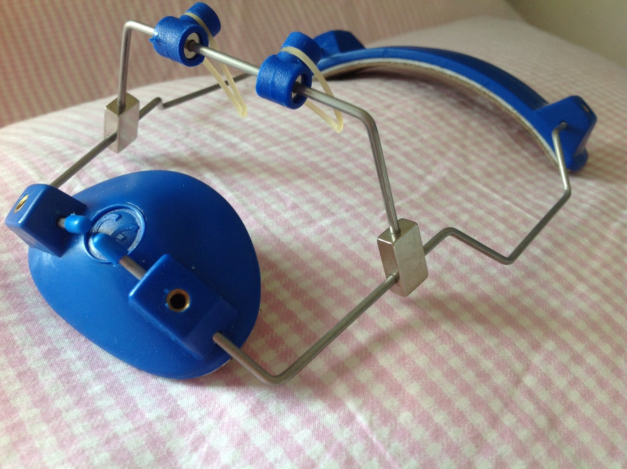 The photo is of an orthodontic extra-oral appliance commonly known as a face-mask or a reverse pull headgear. This spesific design is a Delaire type face-mask and is fitted to the patients face, between 14 and 16 hours a day but in extreme cases can be worn 24/7. during this treatment phase. The mask attaches to the patients upper jaw, typically, with braces fitted, using elastic bands (shown). This pulls the upper jaw forward while it is growing to correct a Class III malocclusion. The elastics also effectively hold the mask in place, on the patents face.